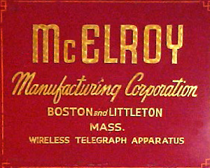 packaging of telegraph key manufactured by Ted McElroy